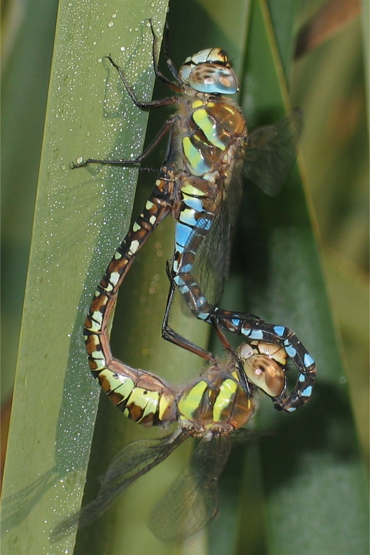 Migrant Hawker